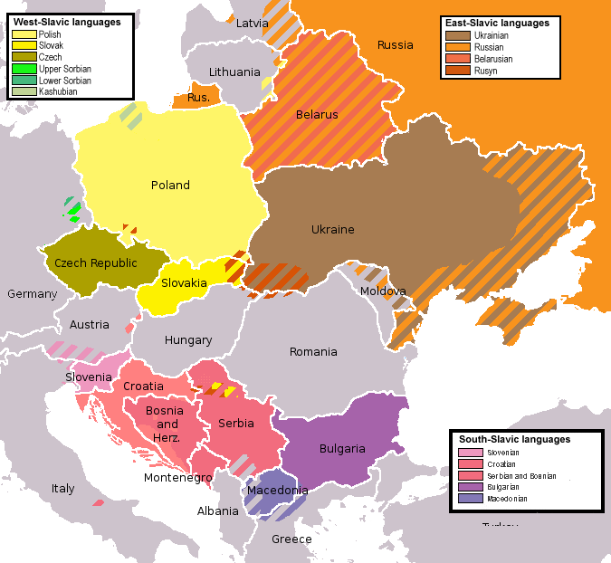 Slavic languages 2000s.